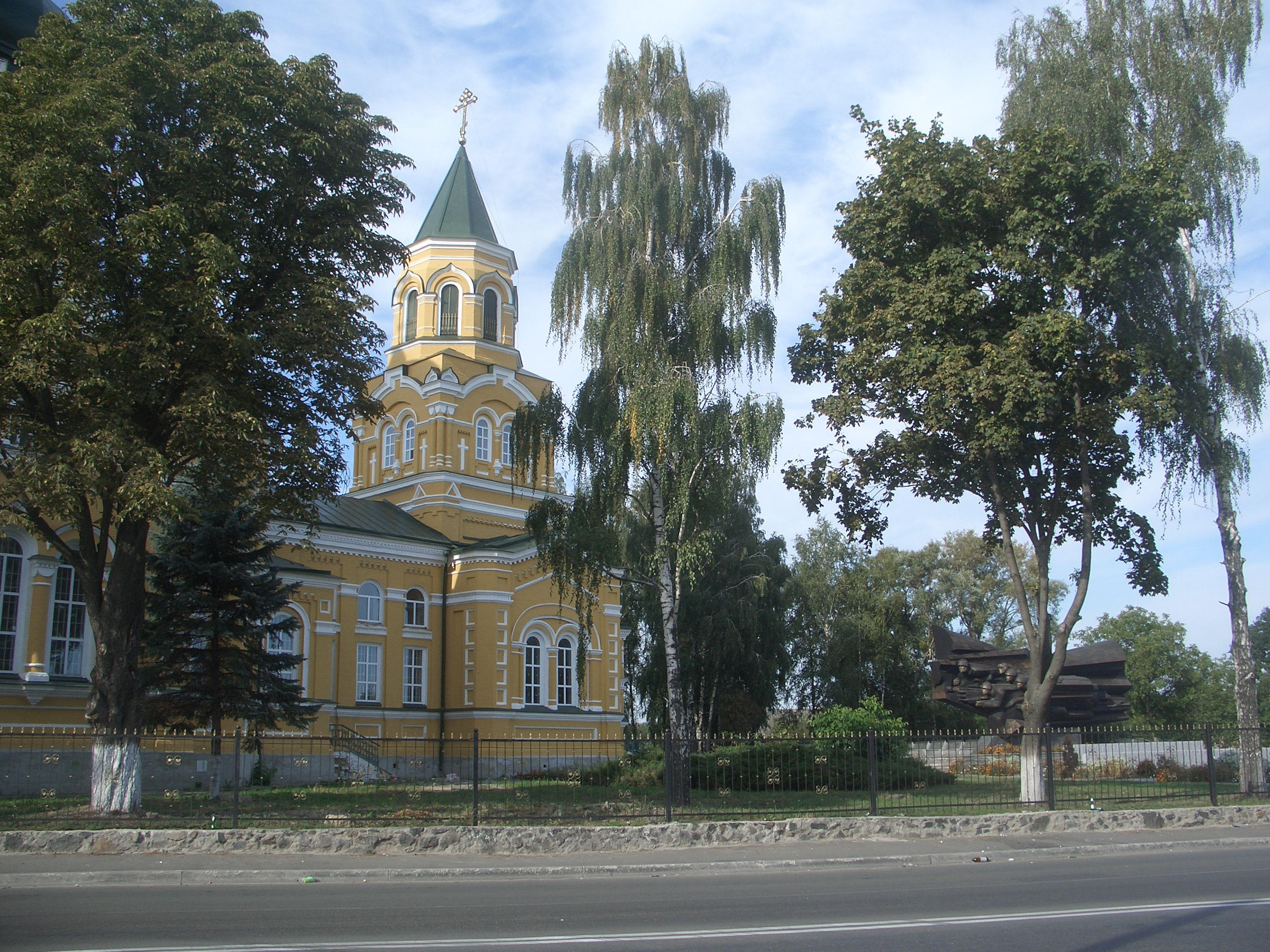 The village of Novi Petrivtsi on the way from Kiev to Chernobyl. The war memorial is to the right of the church; it should be comfortably visible if you look at the full-size image.